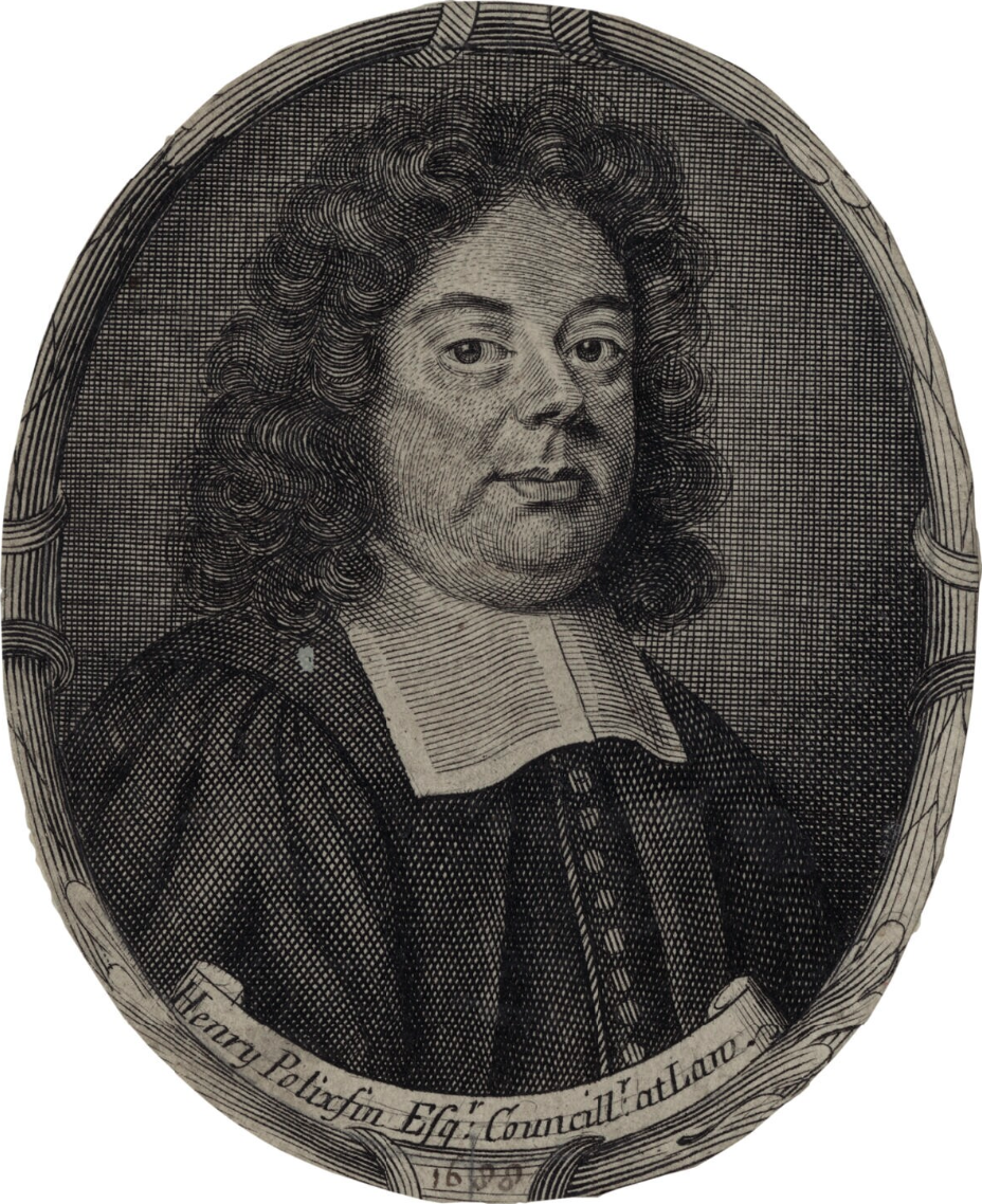 Sir Henry Pollexfen (1632-1691) of Nutwell in the parish of Woodbury, Devon, Lord Chief Justice of the Common Pleas. 1688 engraving by Robert White, after Unknown artist, 3 3/4 in. x 3 1/8 in. (96 mm x 78 mm) paper size. National Portrait Gallery, London, NPG D9132